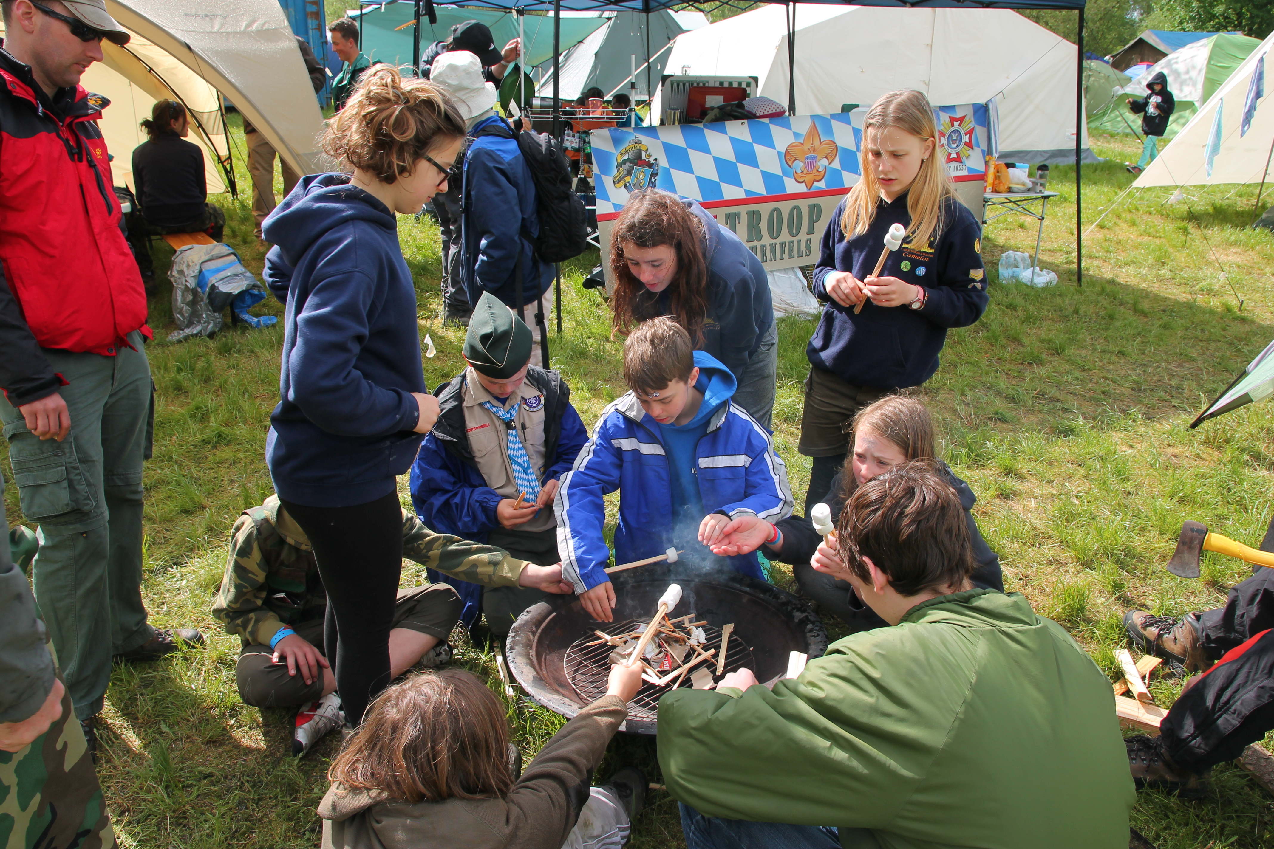 Intercamp 2016 (13.–16. 5. 2016), Josefov fortress, Jaroměře, Czech Republic, US boy scouts toasting marshmallows